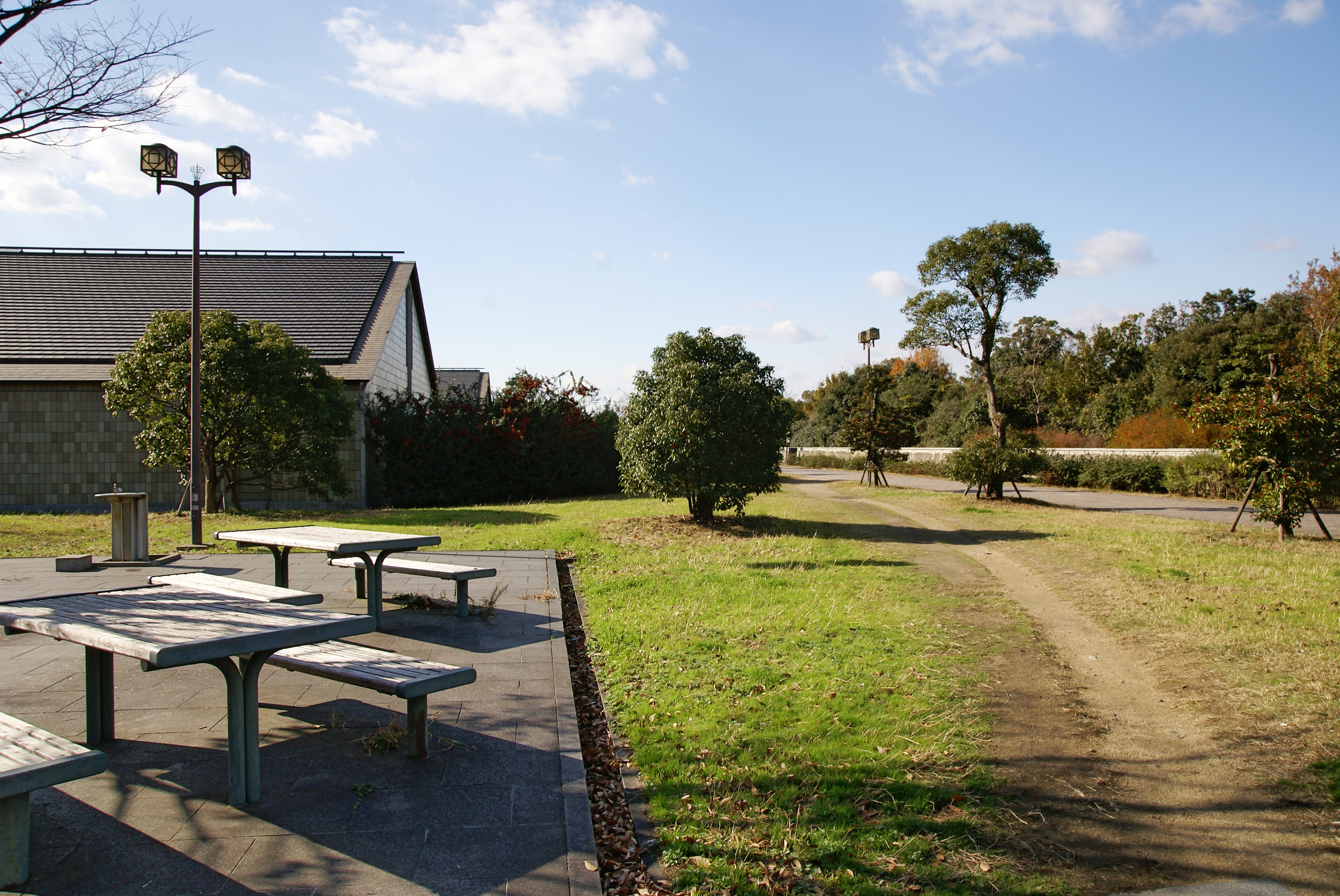 Kobe City Koiso Memorial Museum of Art in Rokko Island, Kobe, Hyogo prefecture, Japan